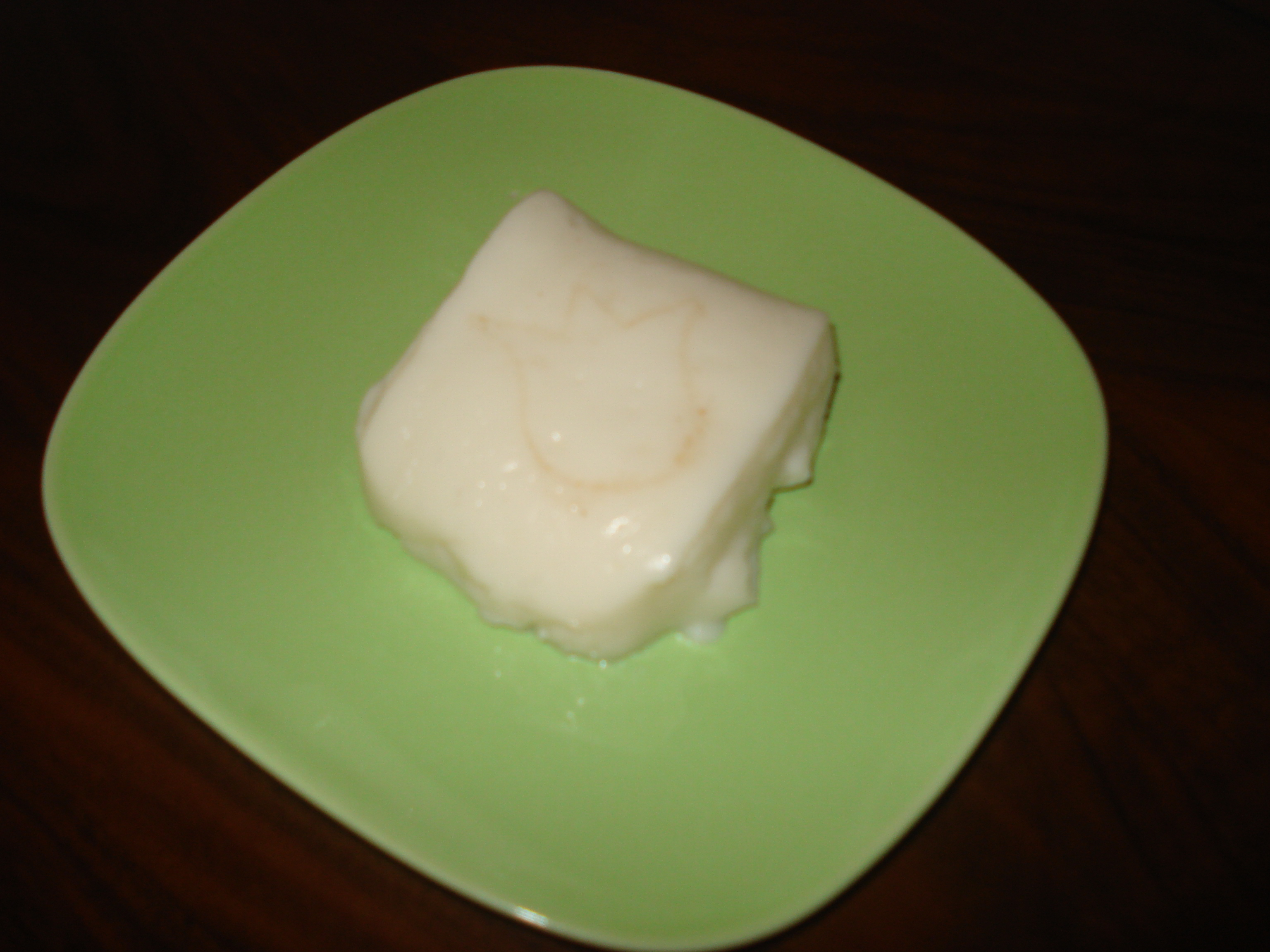 Tavuk Göğsü, a kind of milky dessert from Turkish cuisine